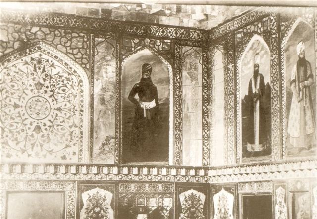 Palace of sardars. Iravan